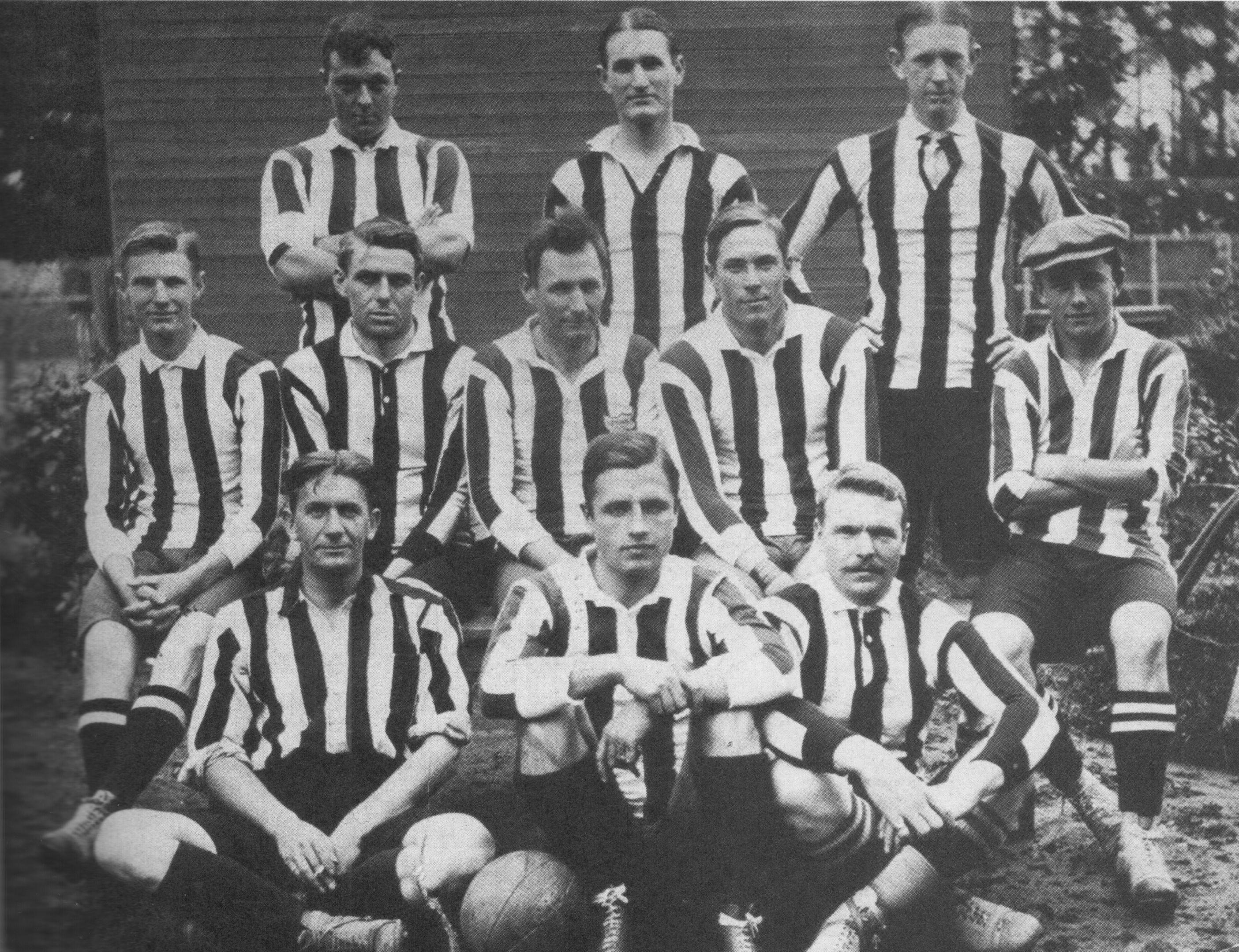 An Alumni A.C. line up.